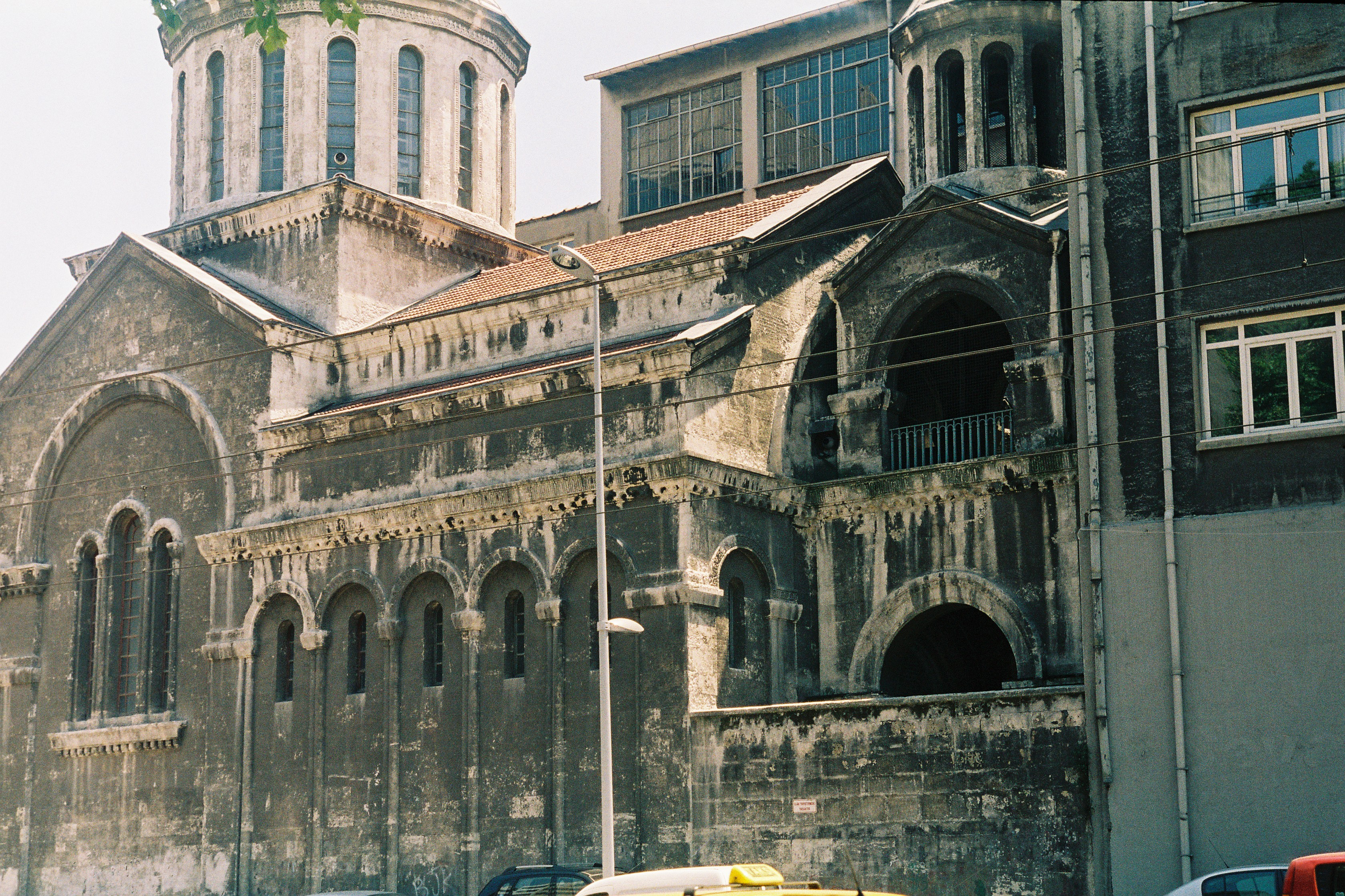 Armenian Church of Surp Krikor Lusavoric in Karaköy (Galata), Istanbul